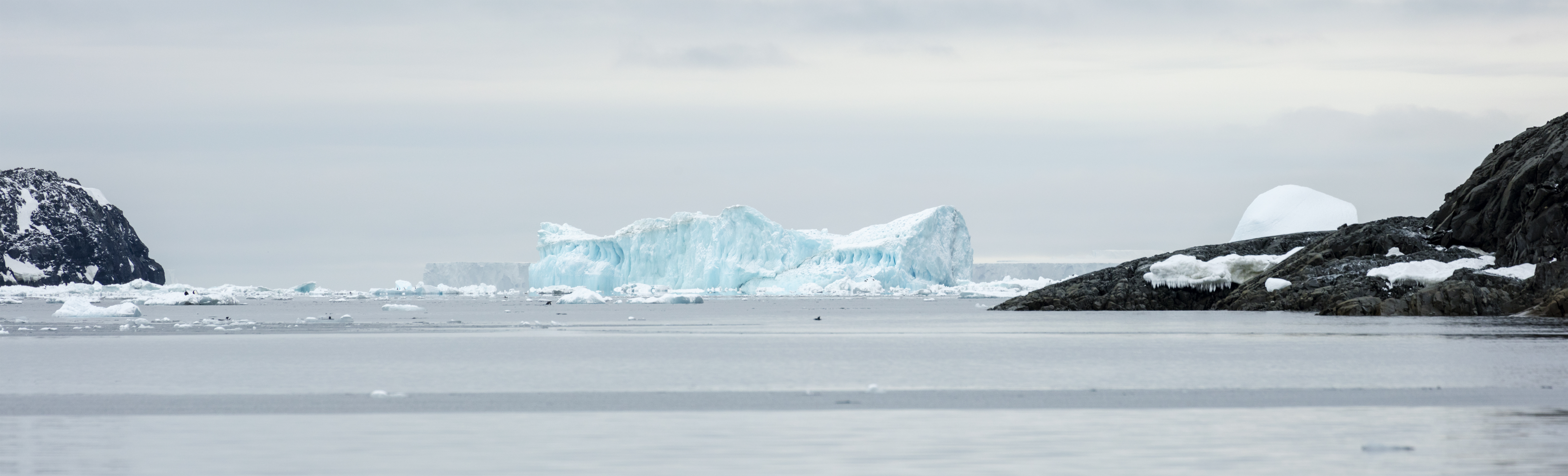 Iceberg, Hope Bay, Trinity Peninsula, on the northernmost tip of the Antarctic Peninsula